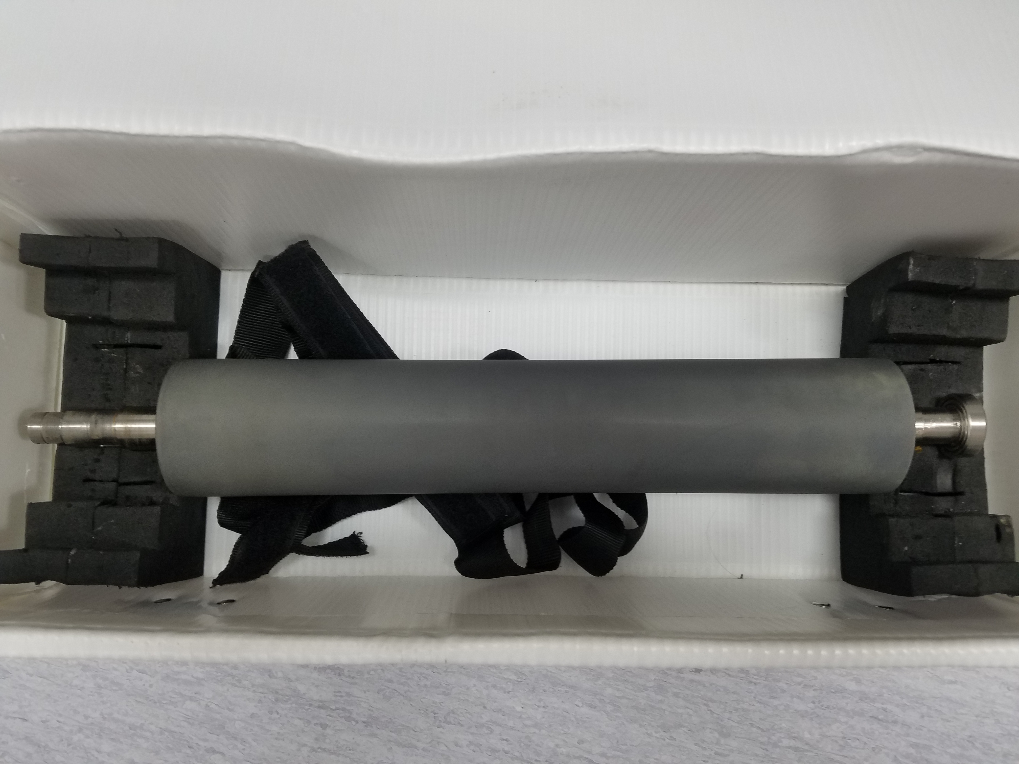 An anilox roll used in flexographic printing. Taken at the Washington Clean Energy Testbeds at the University of Washington in Seattle.